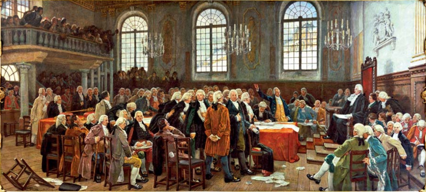 This image shows the painting Débat sur les langues lors de la première Assemblée législative du Bas-Canada le 21 janvier 1793 (Debate on languages during the first Legislative Assembly of Lower Canada, January 21, 1793), by Charles Huot.